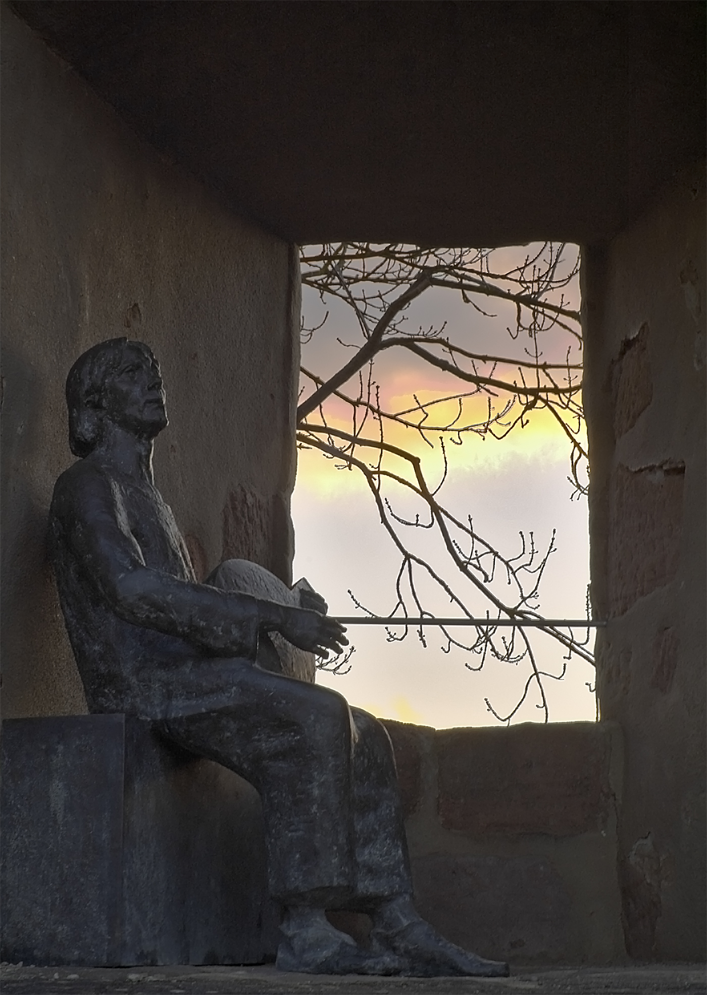 800 years ago Wolfram von Eschenbach sang in his epic poetry Parzival about the bad condition of the joust meadow of castle Abenberg. Today his statue is watching over the condition of its meadow. (HDR Image out of two pictures)